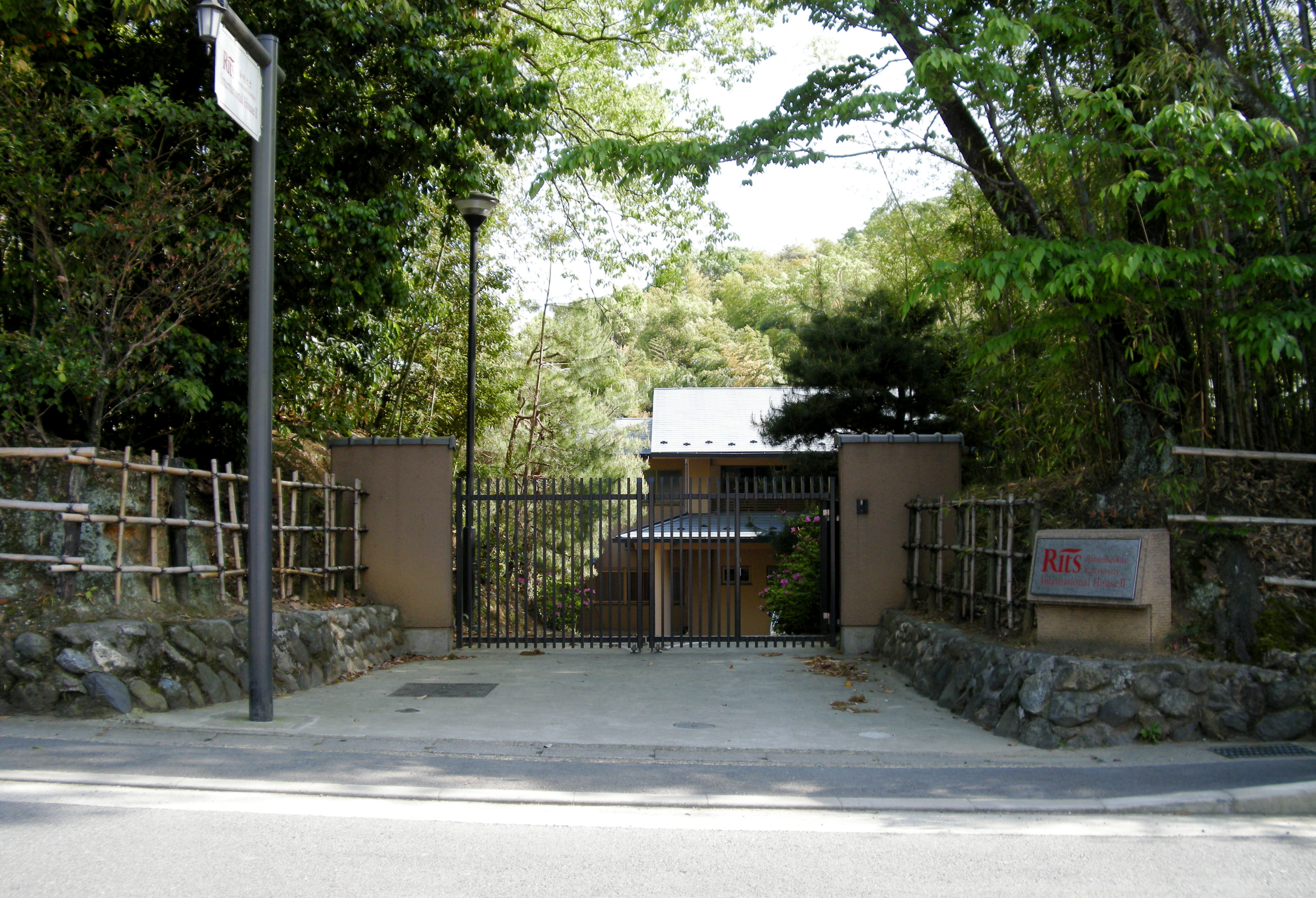 Rits International II (2) (Ritsumeikan University, Kyoto, Japan)